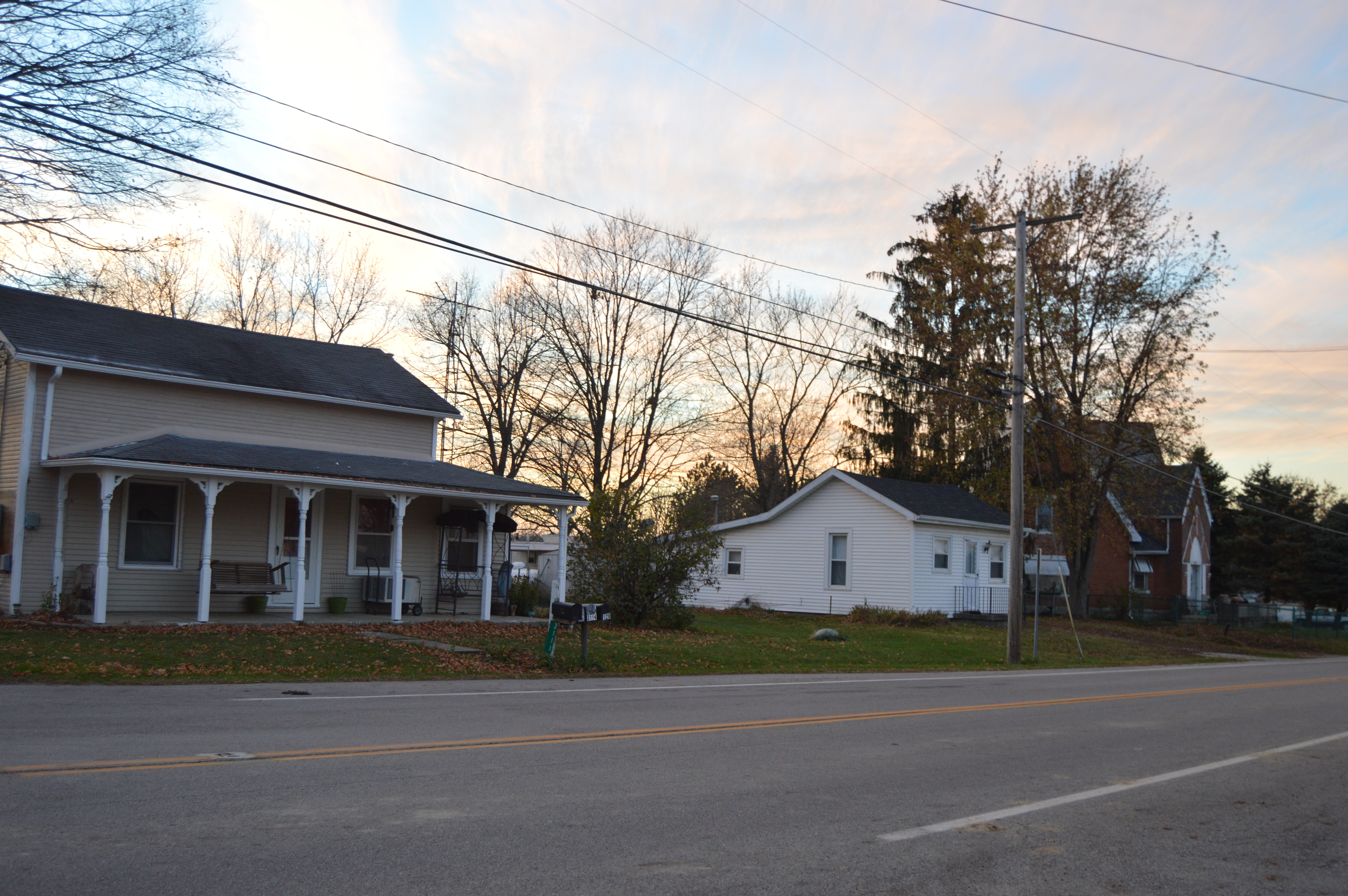 Houses on the western side of State Route 66 north of the Stillwater Road intersection at Mount Jefferson in Loramie Township, Shelby County, Ohio, United States.